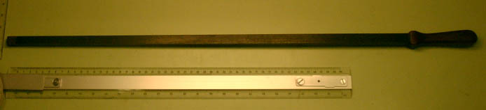 Old measuringstick (alen) made of ivory. Photo, Friman 31.1.06